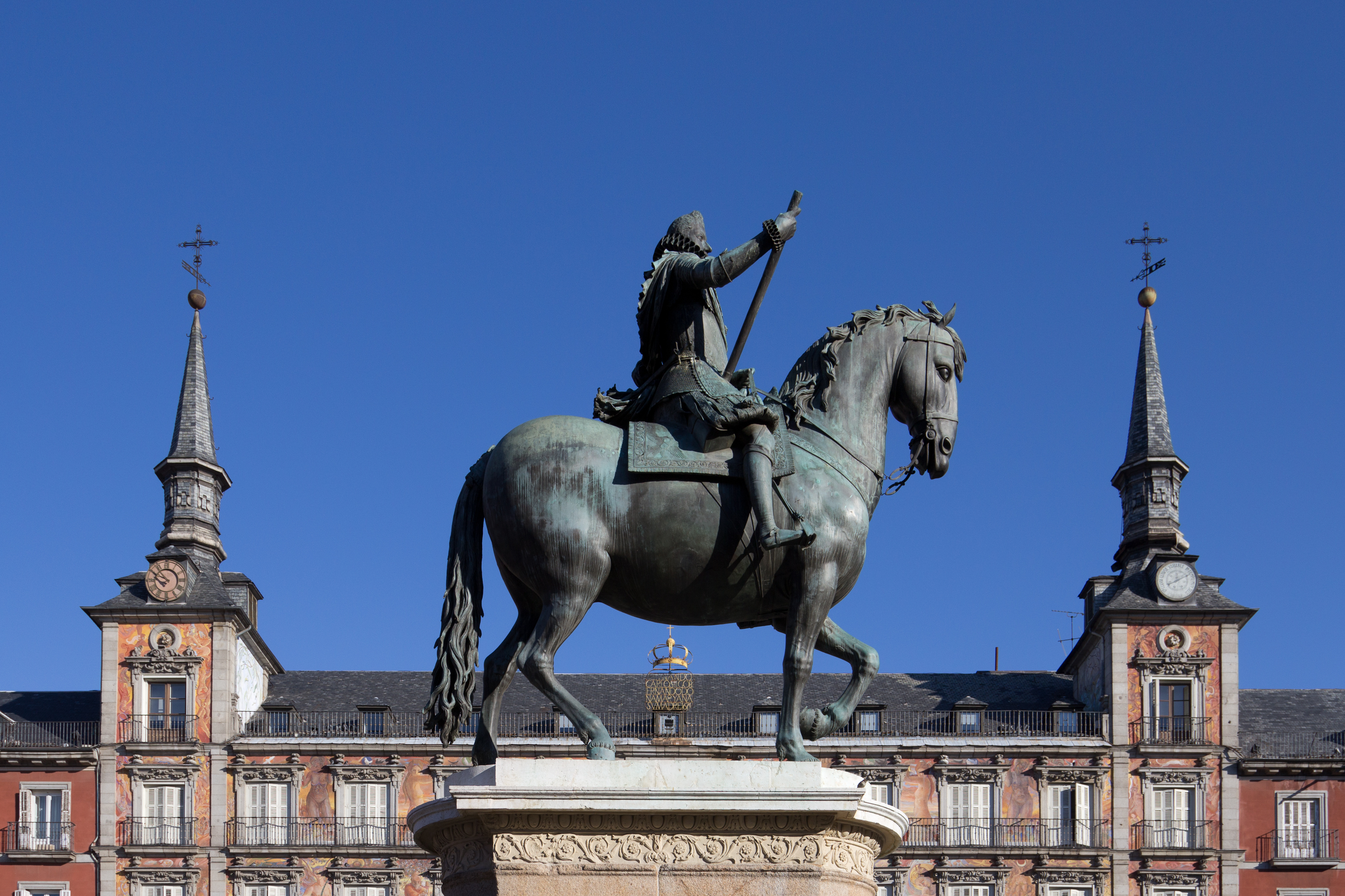 Plaza Mayor, Madrid, Spain.